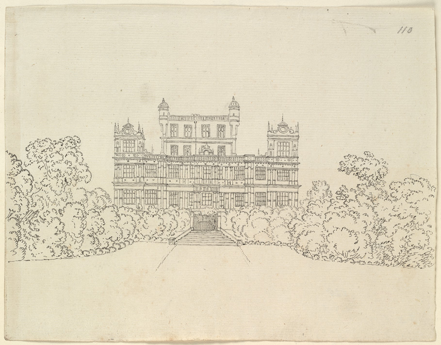 Wollaton Hall was built between 1580 and 1588 for the wealthy coal merchant Sir Francis Willoughby. The architect of Wollaton Hall was Robert Smythson, who designed Hardwick Hall in Derbyshire.